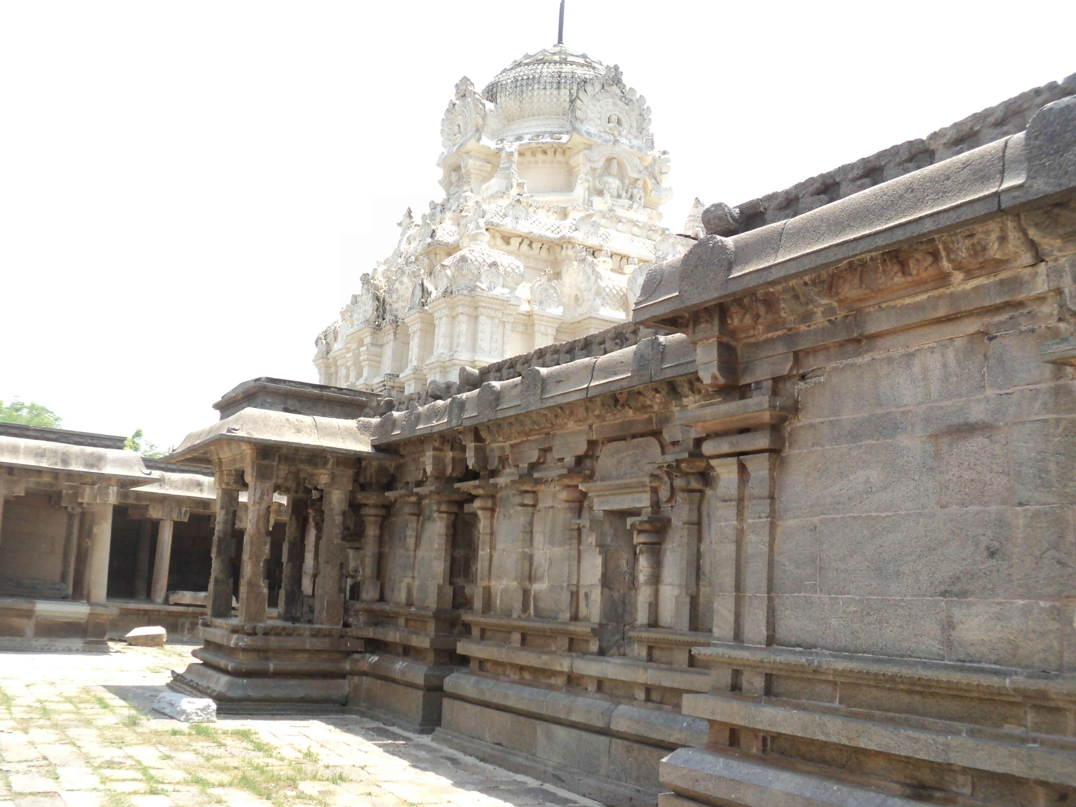 side vierw of the temple